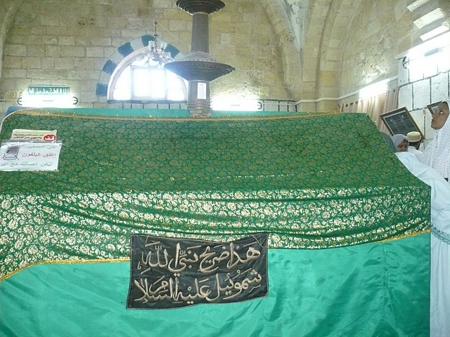 Grave_Samuel_Nabi